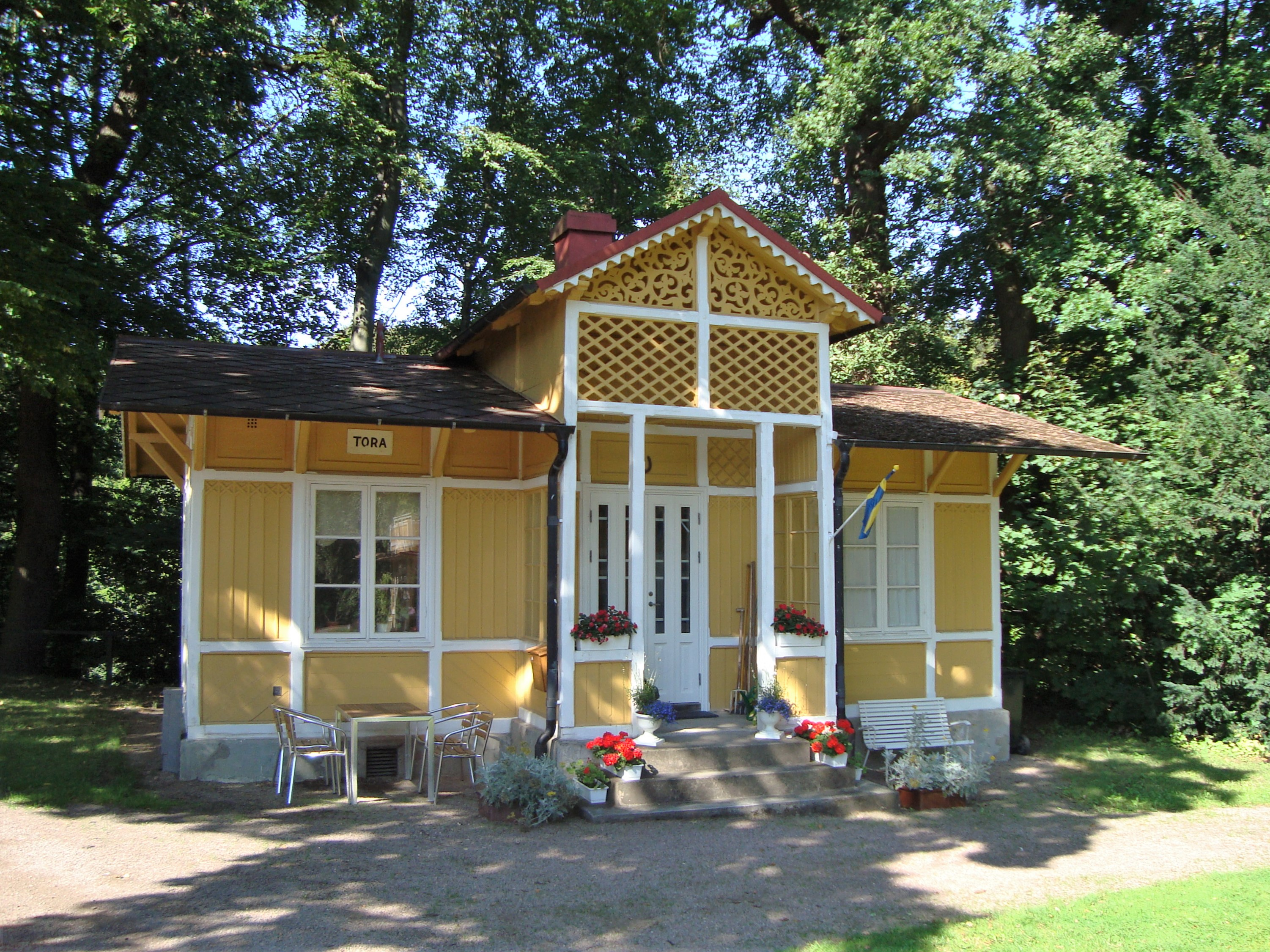 Villa Tora in Ramlösa Spa in Helsingborg.